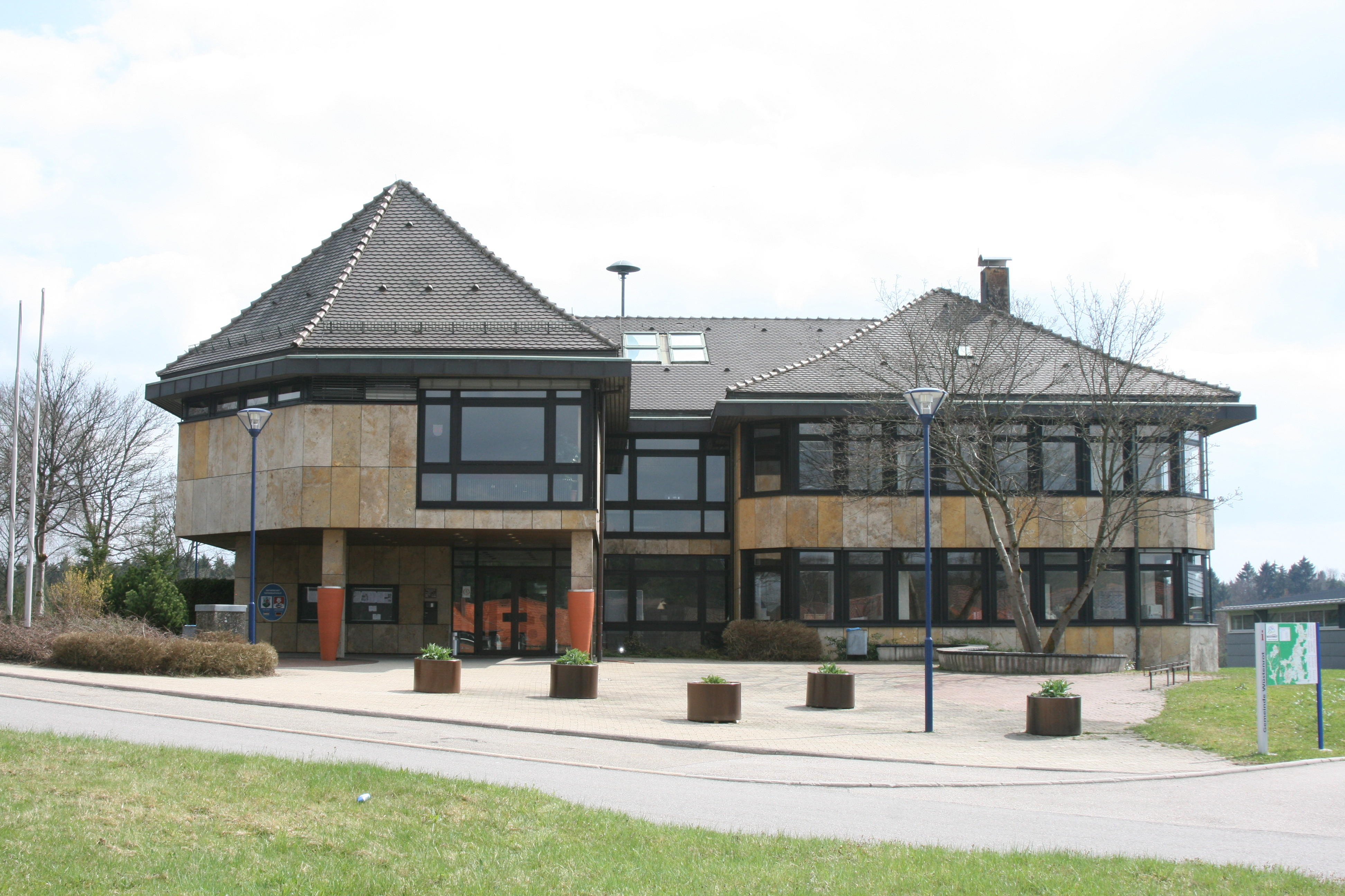 The town hall of Wüstenrot in Weihenbronn